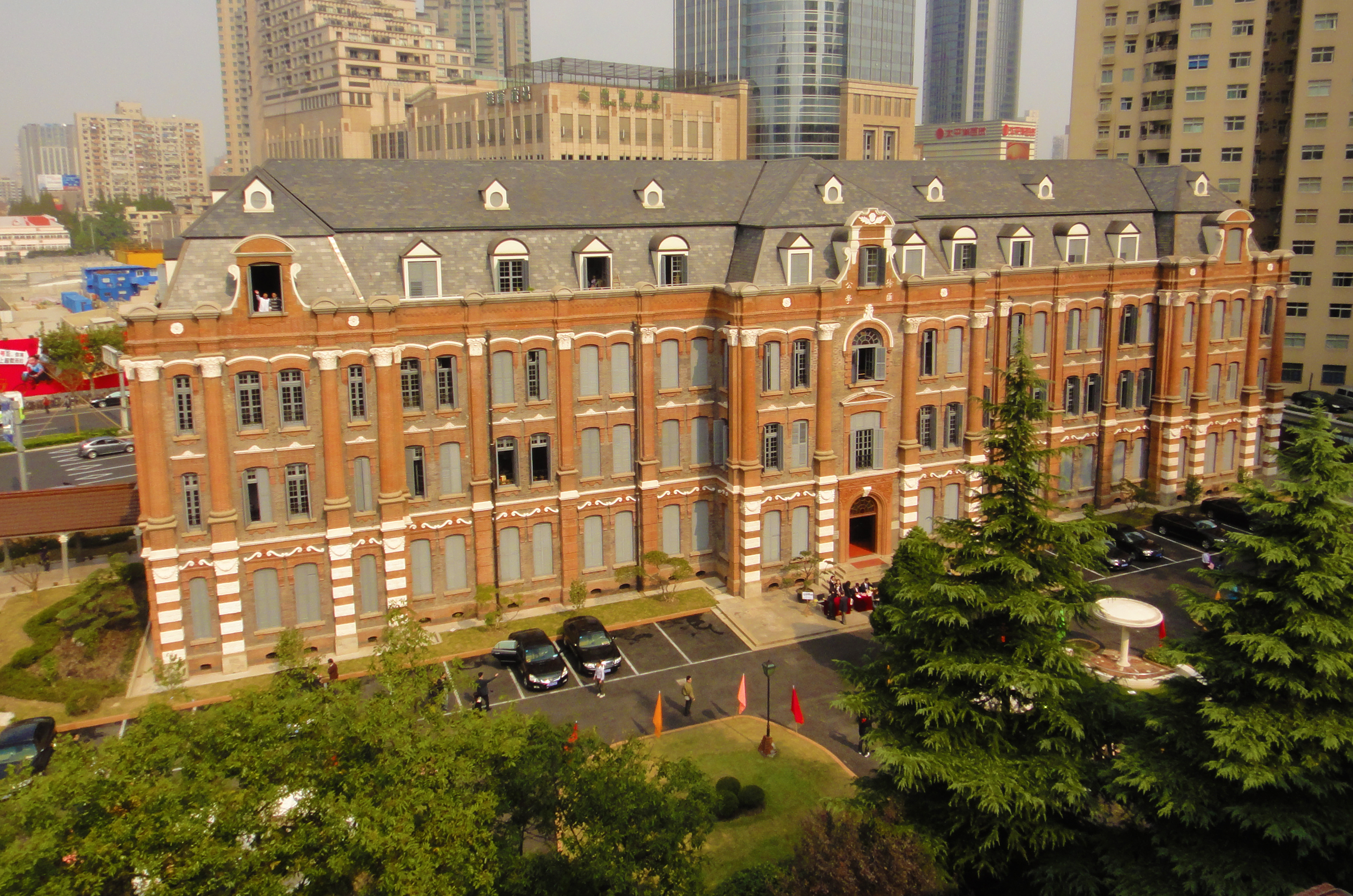 Chongsi Building, built in 1918, is one of the excellent historical buildings in Shanghai.